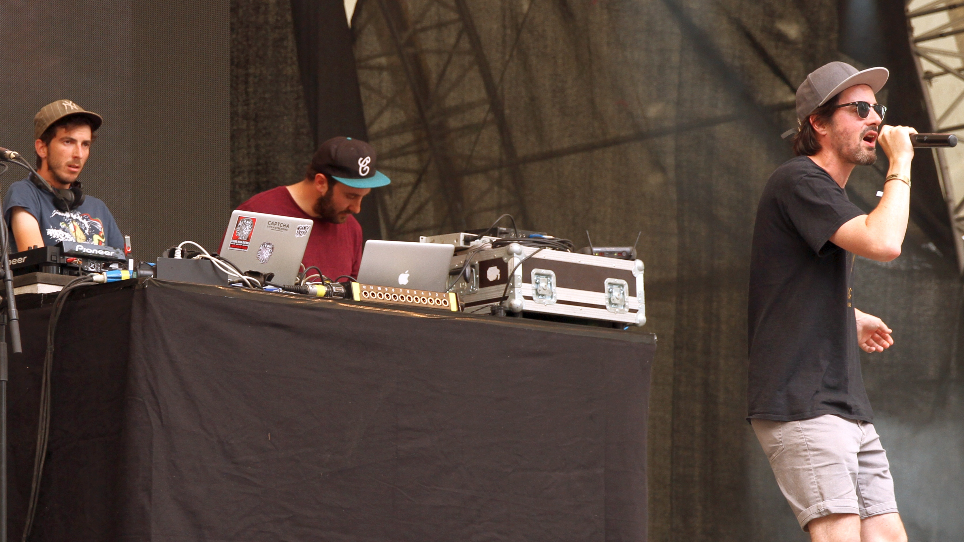 Stand High Patrol performing on green stage at Summerjam Festival 2015 in Cologne